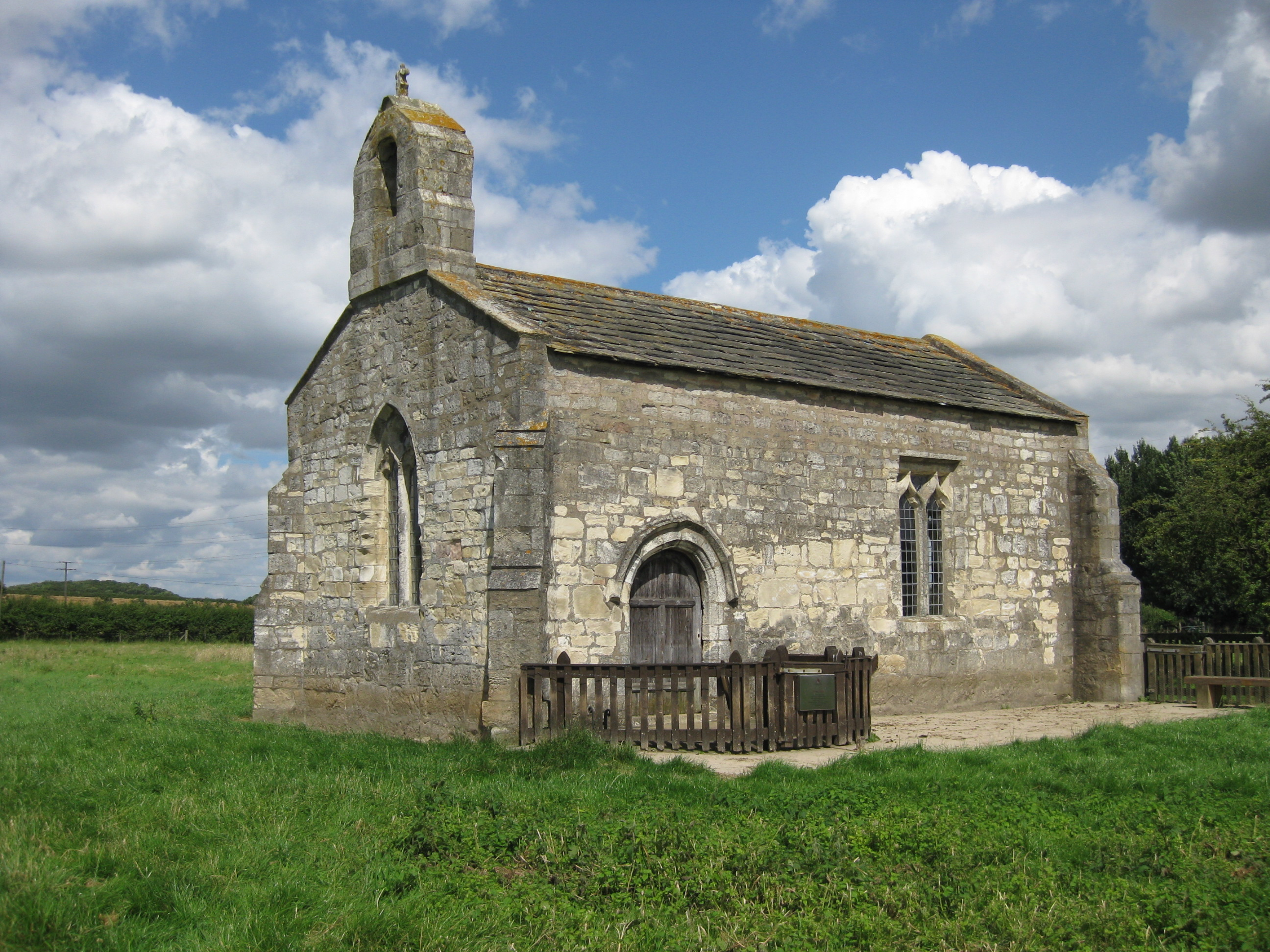 The Church of St Mary, Lead, North Yorkshire, England. Built about 1150 as a chapel, repaired 1784, restored 1932. Now looked after by the Churches Conservation Trust and Friends of St Mary's Church, Lead.